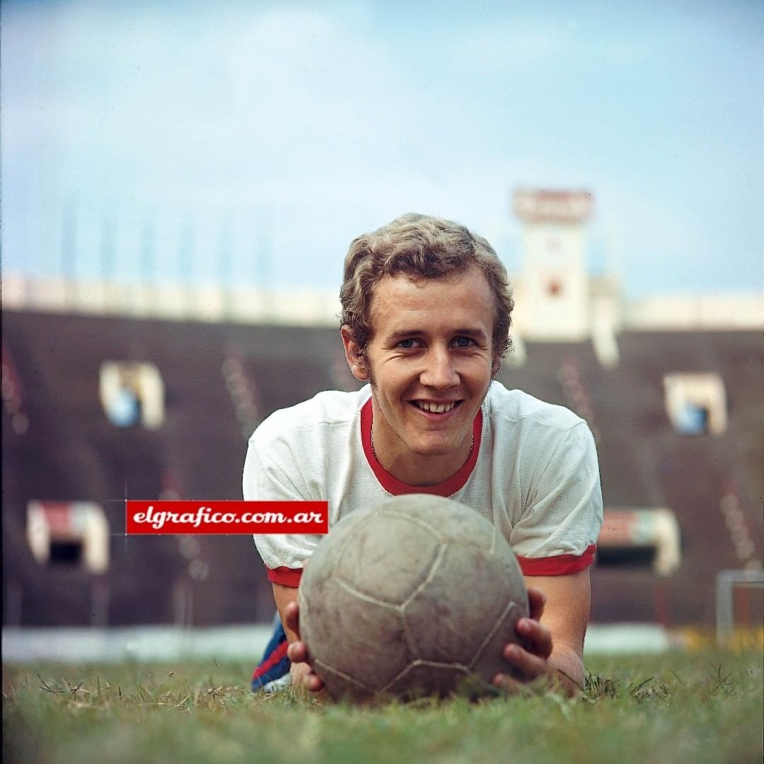 Carlos Babington during his first year with the Huracán senior team.